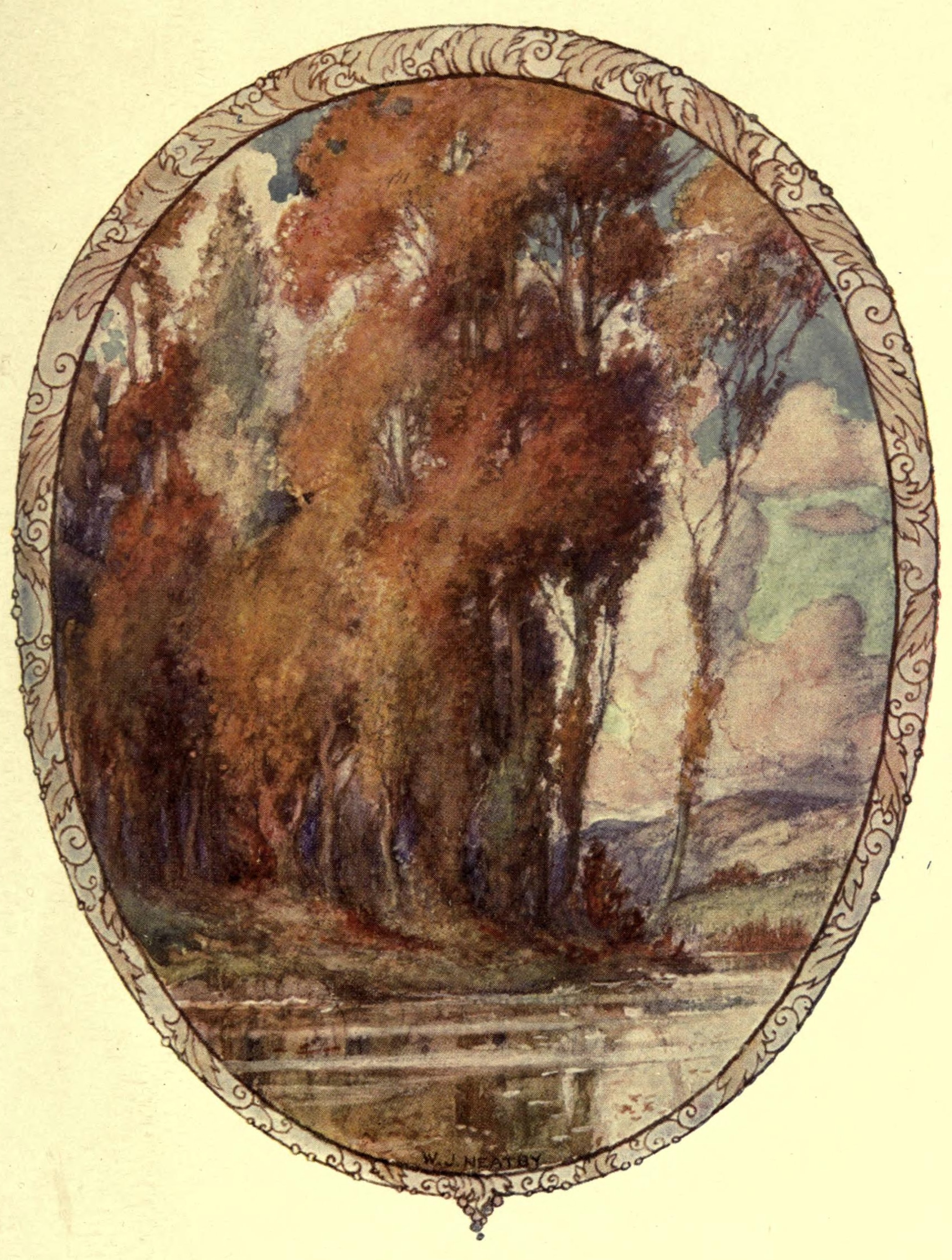 Illustration of poem by John Keats by W. J. Neatby (1860-1910)